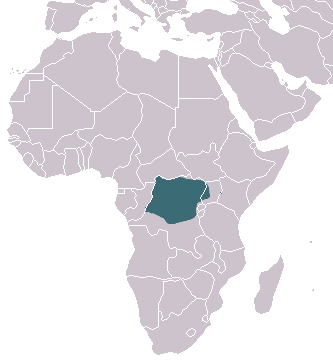 Alexander's Kusimanse (Crossarchus alexandri) range